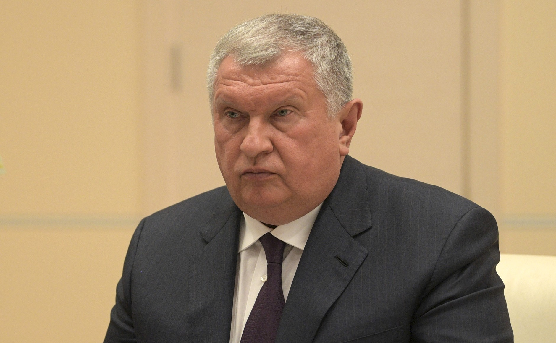 Rosneft CEO Igor Sechin.